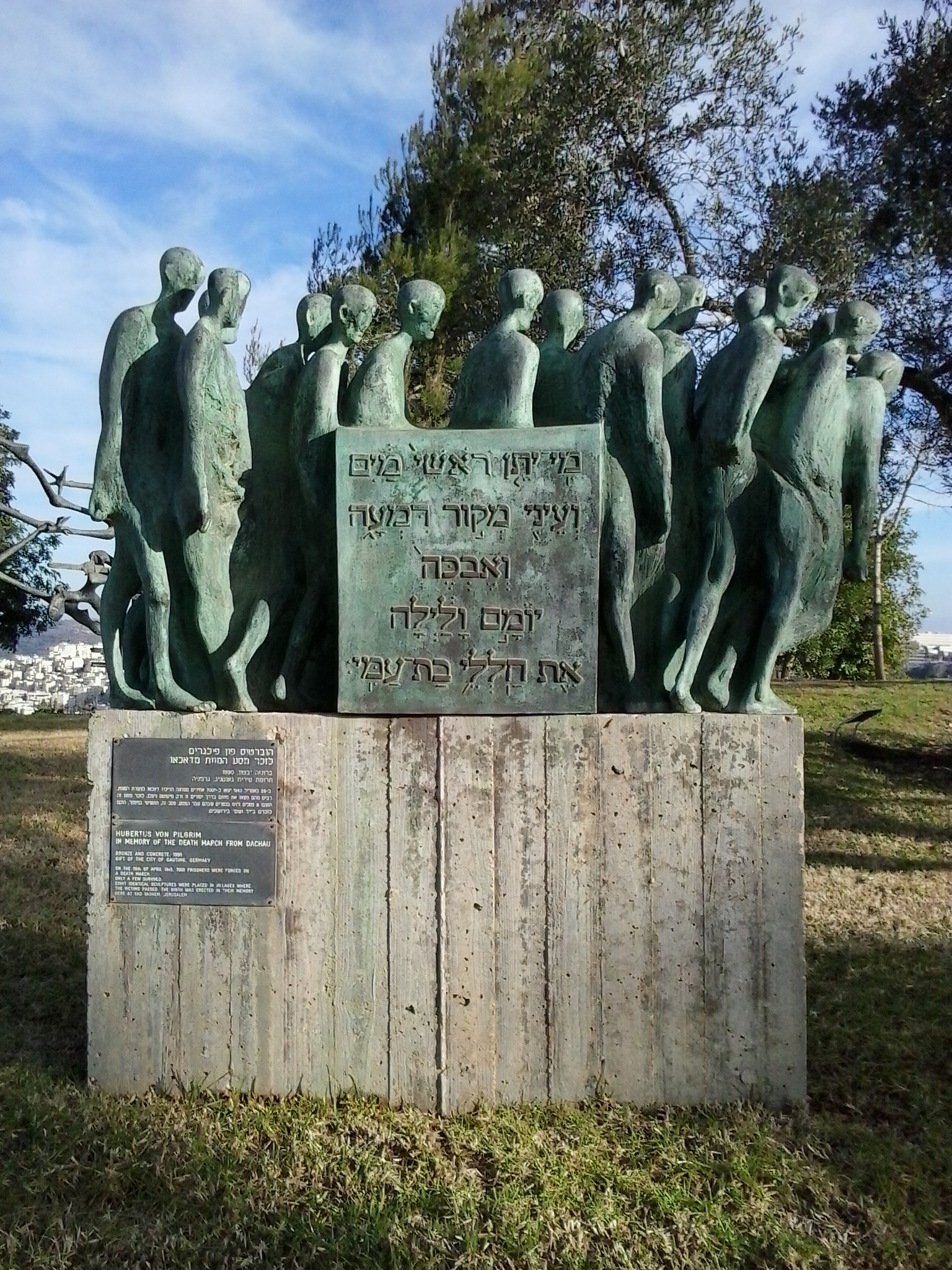 Todesmärsche by Hubertus von Pilgrim at Yad Vashem